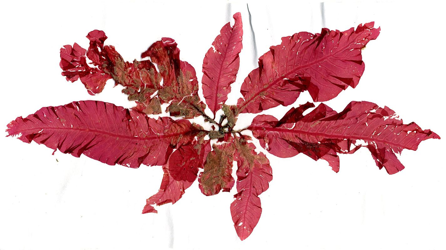 Delesseria sanguinea (Huds.) Lamour., herbarium sheet. Collected 1989-08-13, Heligoland (Germany)